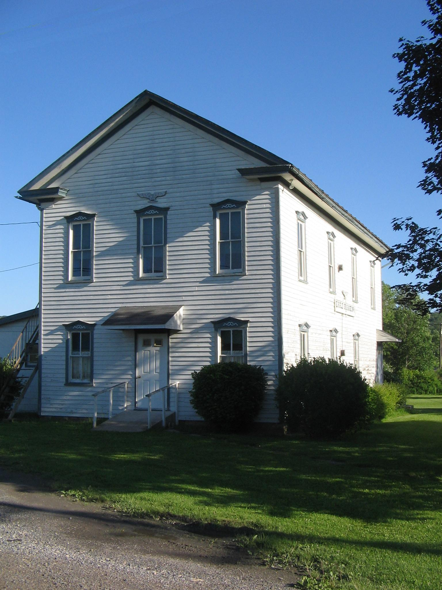 Eagle Grange Number 1, built 1887, Clinton Township, Lycoming County, Pennsylvania, USA